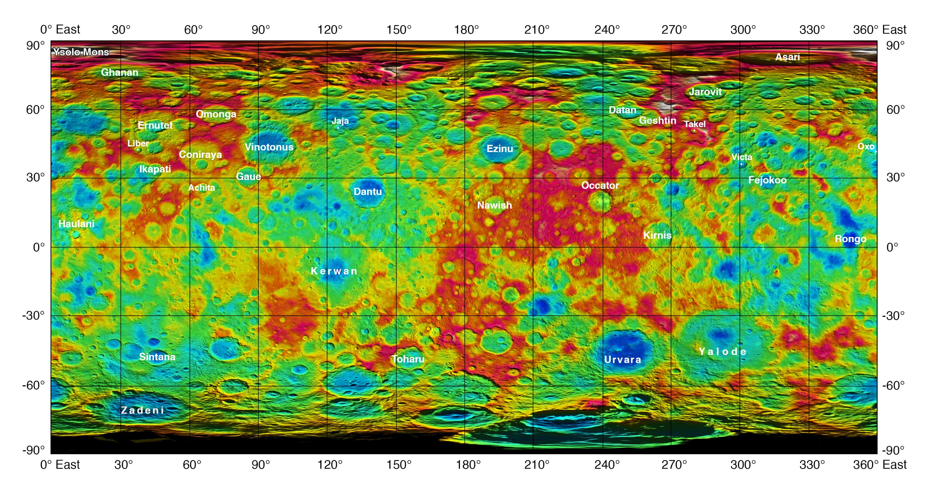 PIA19974: Topographic Ceres Map with Feature Names II This color-coded map from NASA's Dawn mission shows the highs and lows of topography on the surface of dwarf planet Ceres. It is labeled with names of features approved by the International Astronomical Union. The color scale extends about 5 miles (7.5 kilometers) below the reference surface in indigo to 5 miles (7.5 kilometers) above the reference surface in white. The brightest spots on Ceres, located in Occator crater, retain their bright appearance in this map, although they are color-coded in the same green elevation of the crater floor in which they sit. The one named mountain on Ceres is called Ysolo Mons, and lies high in the northern hemisphere at upper left. The topographic map was constructed from analyzing images from Dawn's framing camera taken from varying sun and viewing angles. The map was combined with an image mosaic of Ceres and rendered as a simple cylindrical projection. Not pictured is Kait crater, which lies on longitude 0. Dawn's mission is managed by JPL for NASA's Science Mission Directorate in Washington. Dawn is a project of the directorate's Discovery Program, managed by NASA's Marshall Space Flight Center in Huntsville, Alabama. UCLA is responsible for overall Dawn mission science. Orbital ATK, Inc., in Dulles, Virginia, designed and built the spacecraft. The German Aerospace Center, the Max Planck Institute for Solar System Research, the Italian Space Agency and the Italian National Astrophysical Institute are international partners on the mission team. For a complete list of acknowledgments, For more information about the Dawn mission, visit